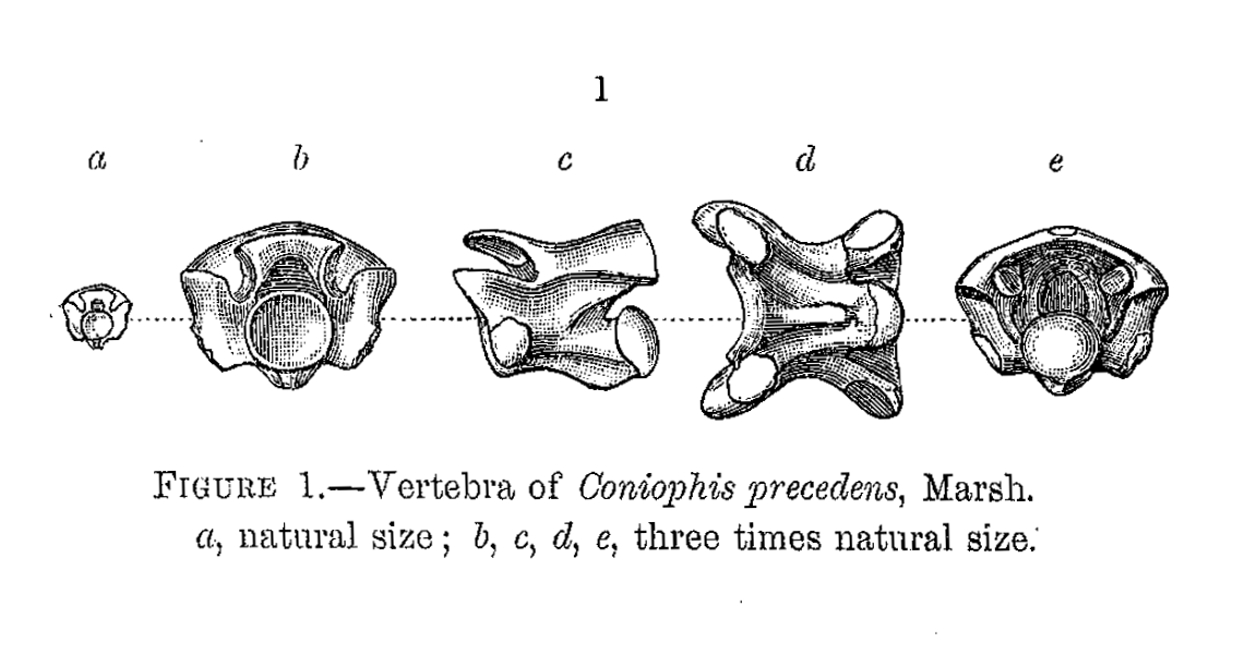 Holotype of the fossil snake Coniophis precedens Marsh 1892 from the upper Upper Cretaceous of North America, catalogue no.: USNM 2134, a single trunk vertebra, drawing by O. C. Marsh.